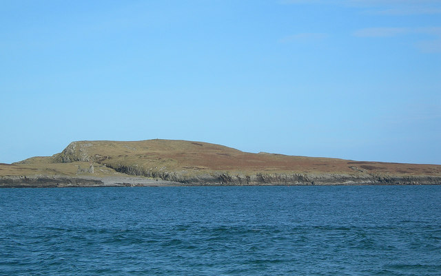 Nave Island, nearly Islay, Scotland